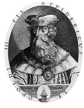 Friedrich IV, Duke of Austria (1382-1439)